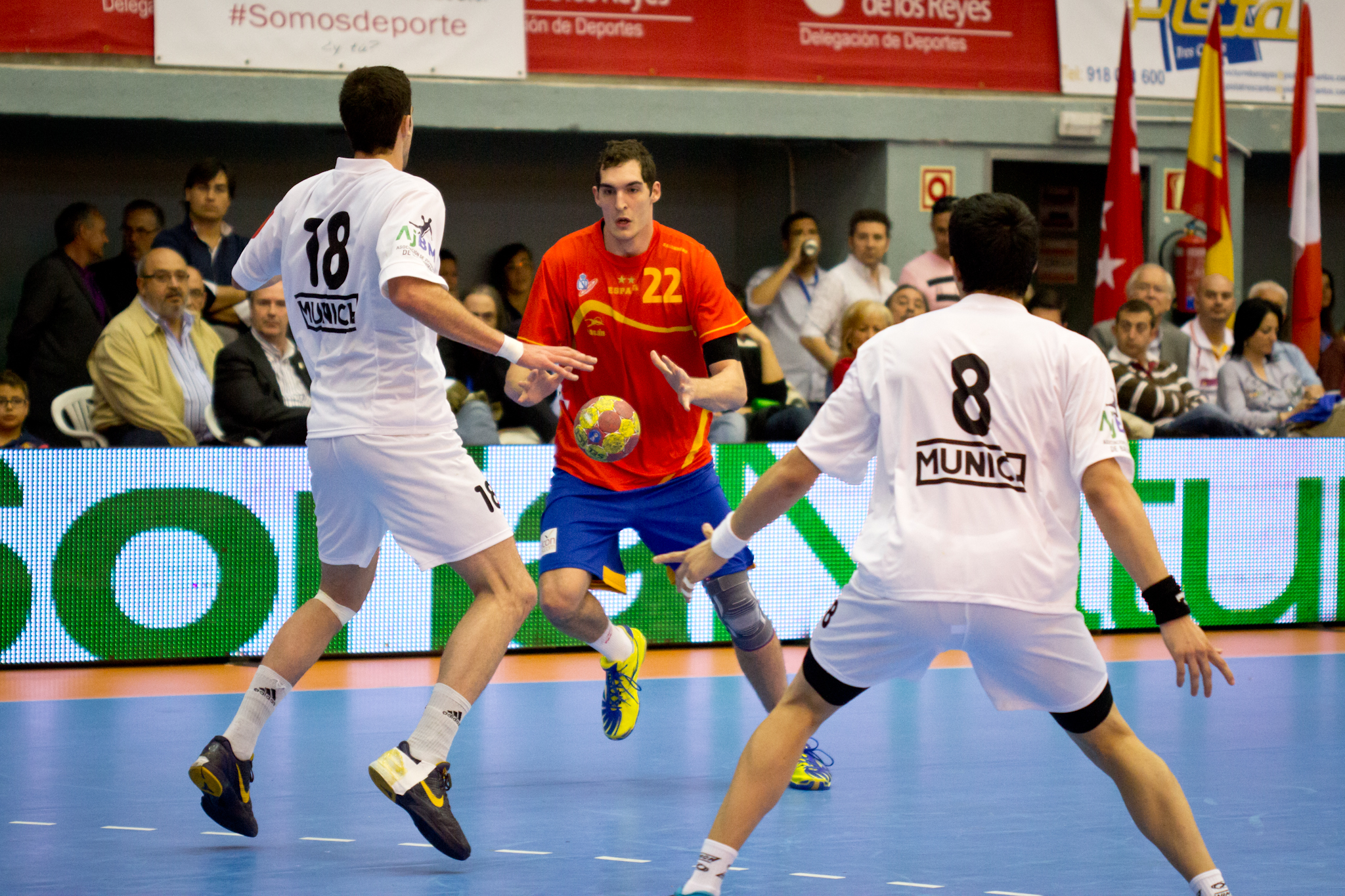 Spain Handball All Star Game 2013, held in San Sebastián de los Reyes, Madrid, Spain.